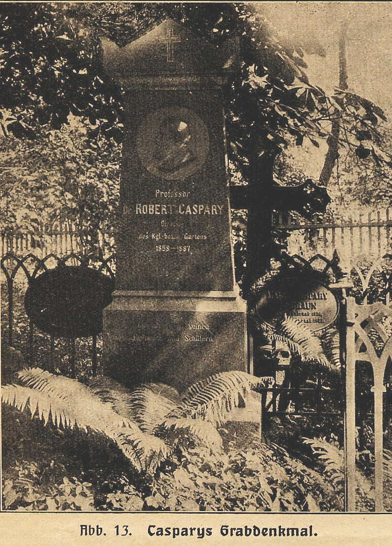 The grave was situated in Königsberg, todays Kaliningrad, see "Gelehrtenfriedhof (Königsberg)". Robert Caspary (1818–1878) was biologist